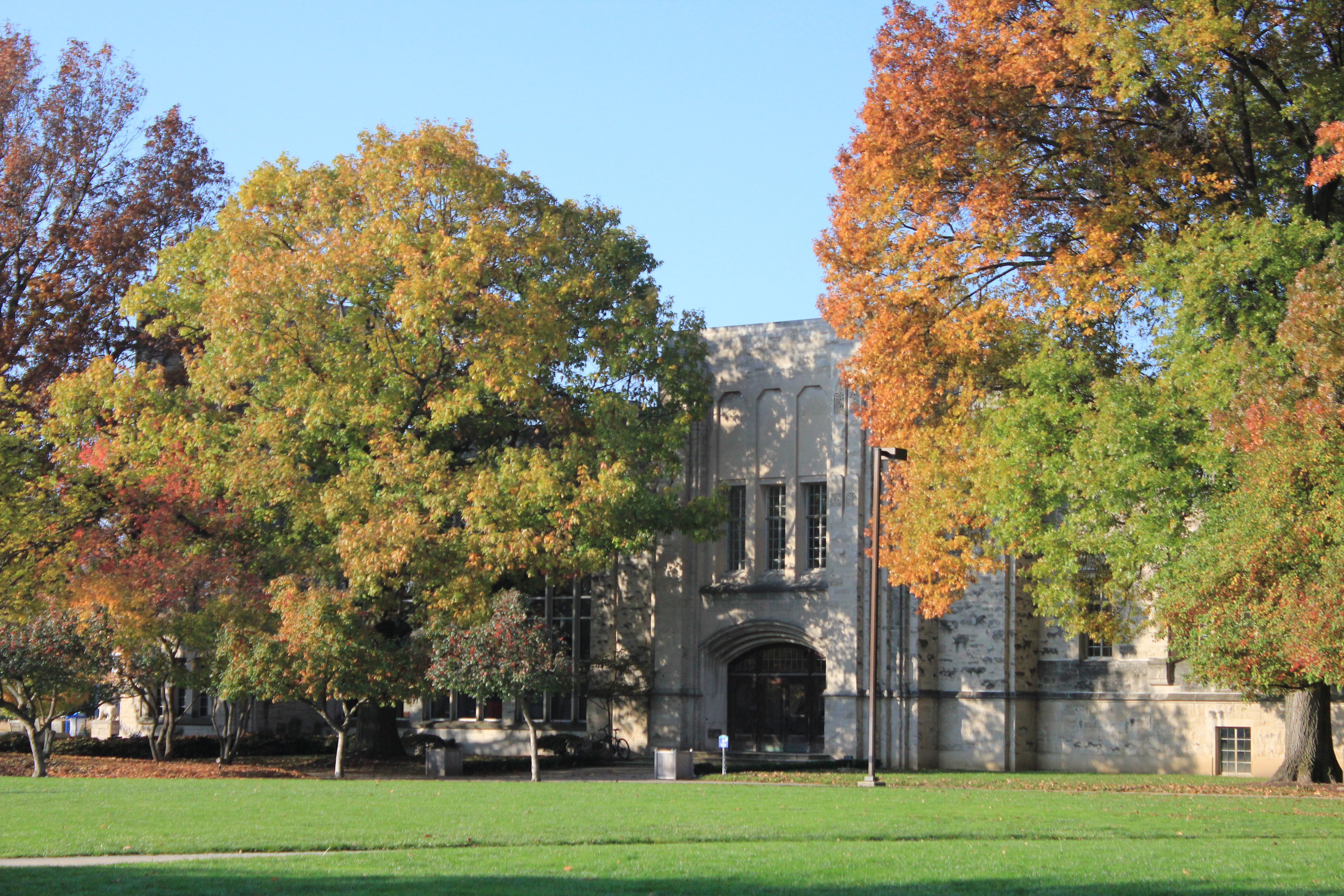 Butler University in the Fall, 2014